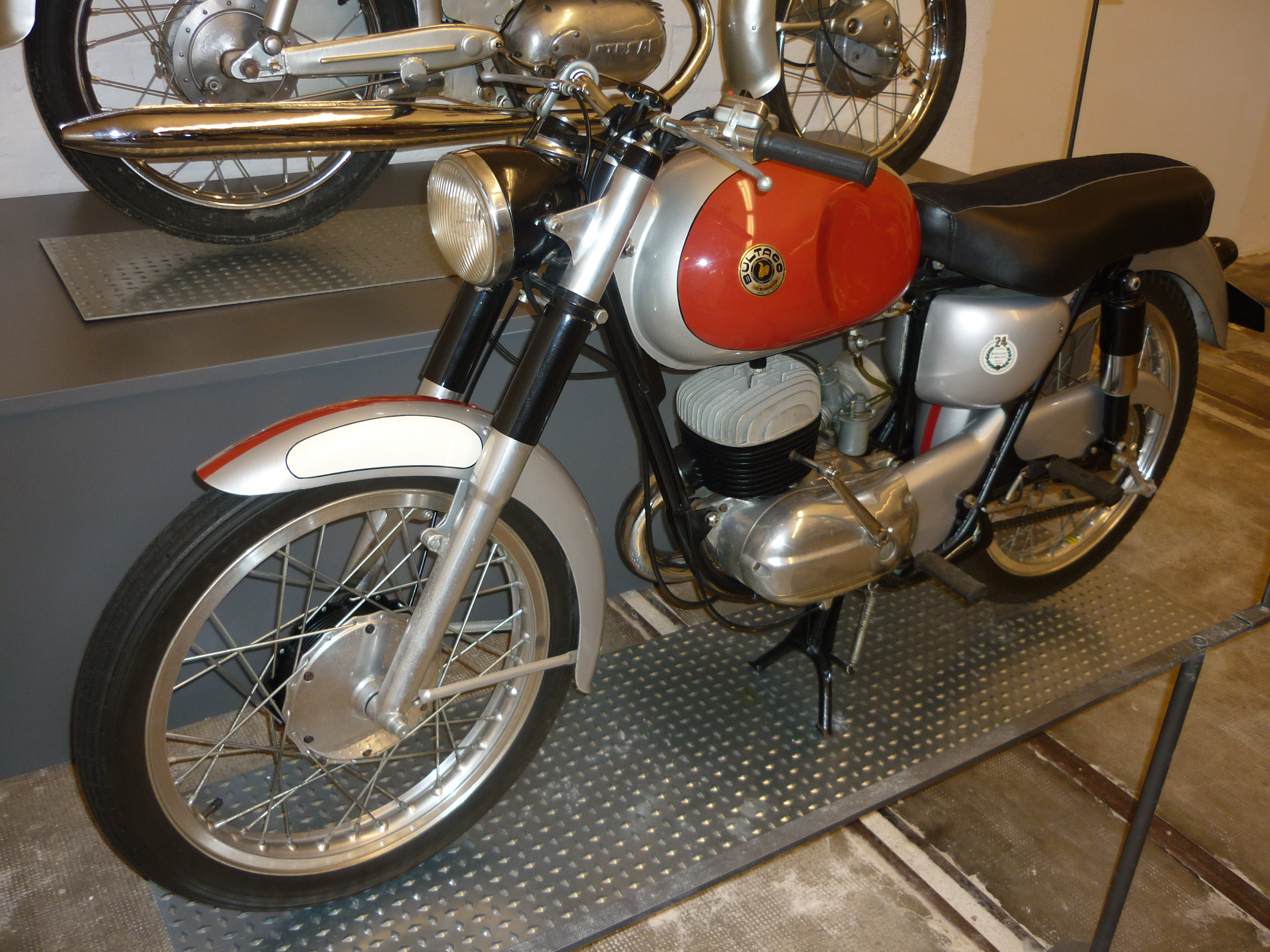 Bultaco Tralla 101 125cc, 1959. First model manufactured by Bultaco, filed on March 24, 1959.